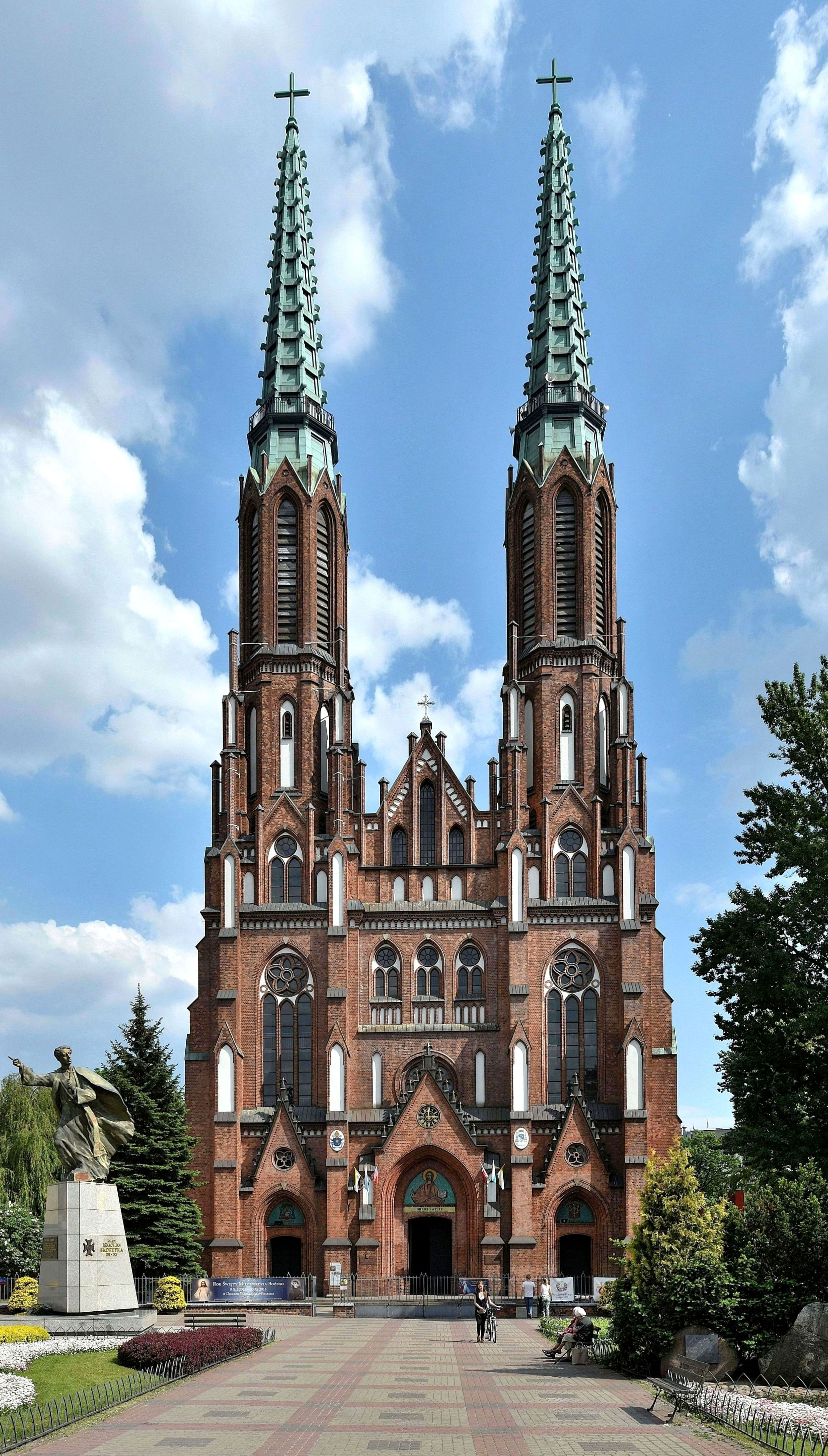 Saints Michael Archangel and Florian Basilica in Warsaw